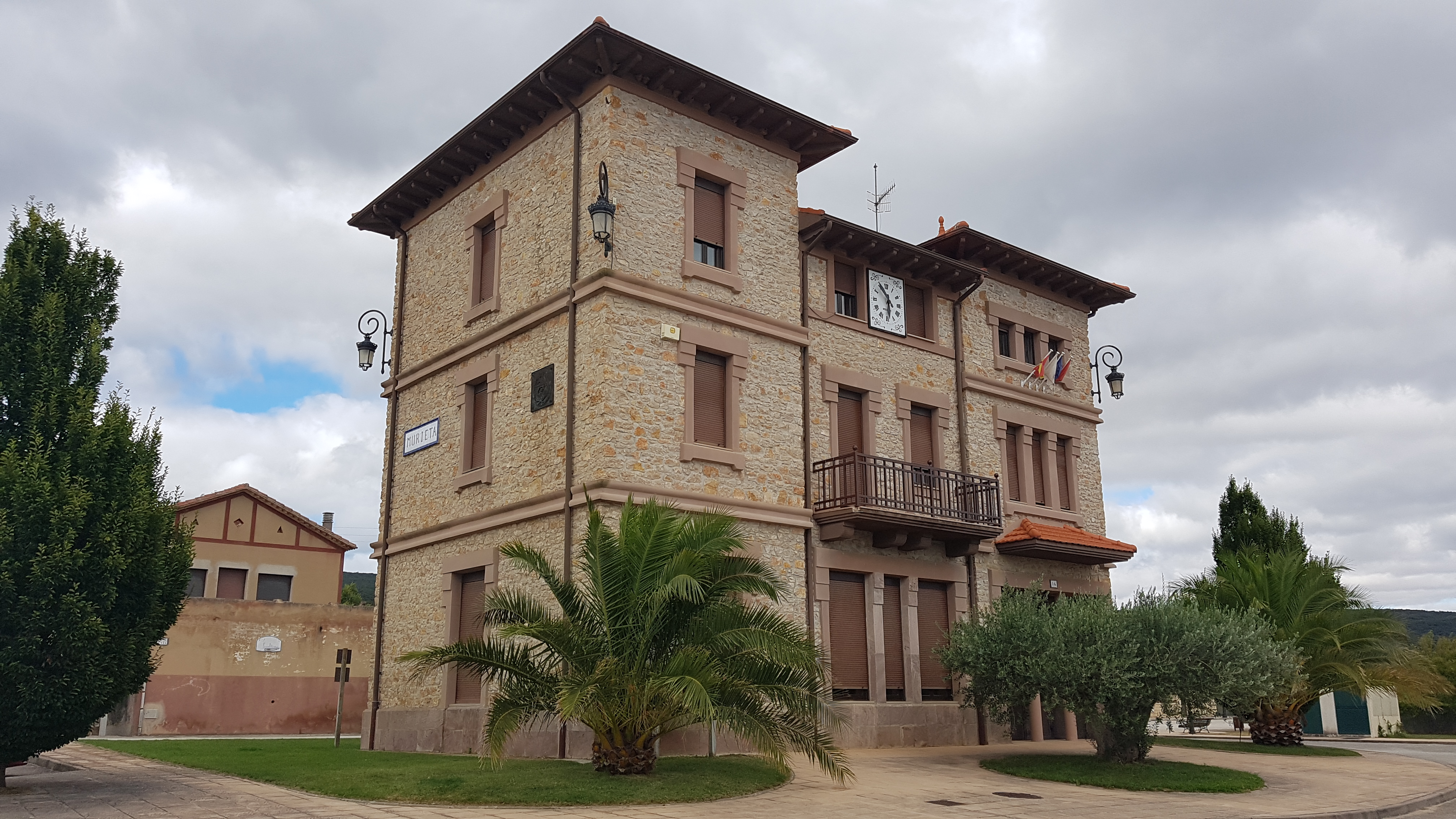 Town Hall of Murieta. Located on the former station of the Anglo-Vasco-Navarro railway.